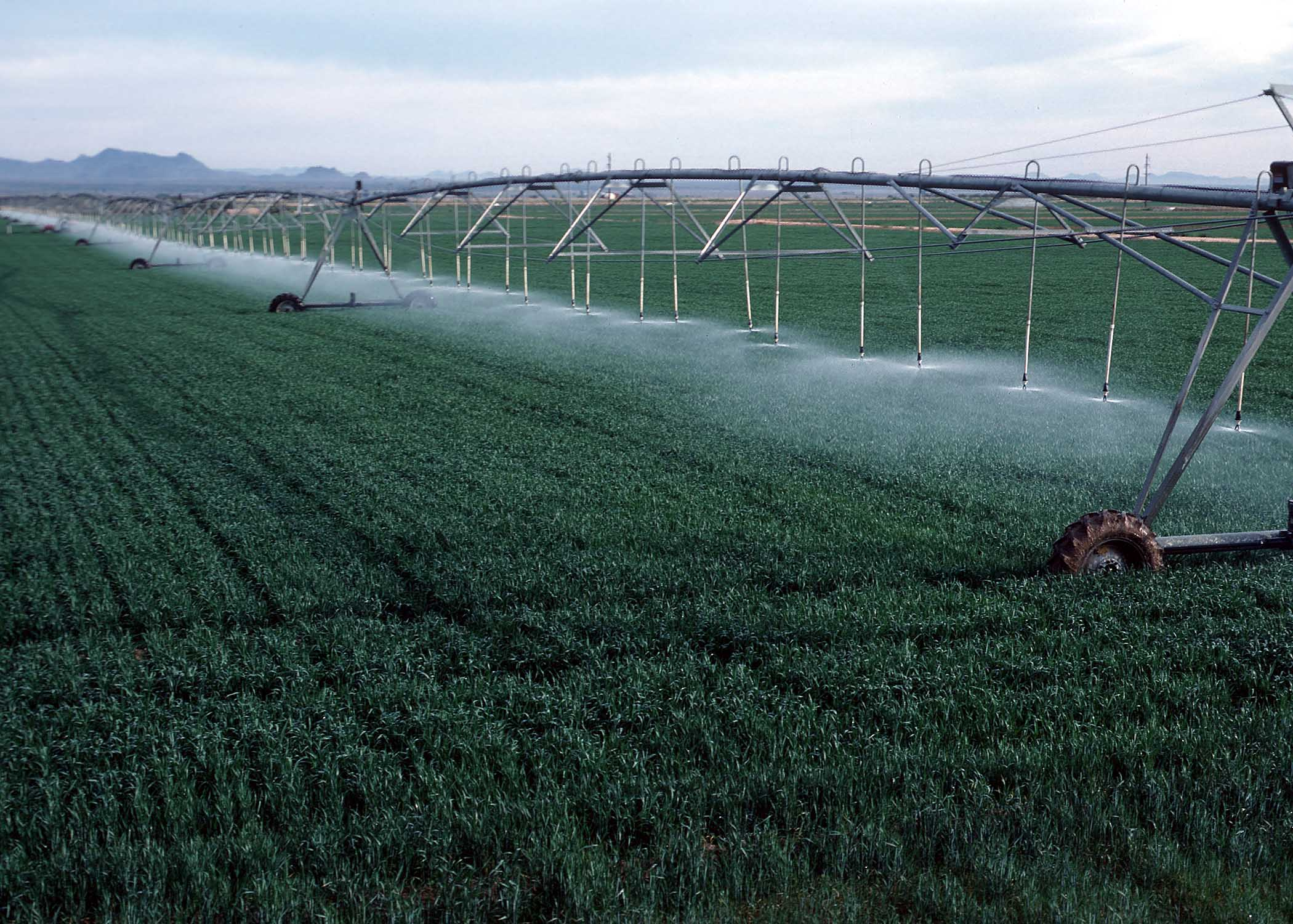 Center pivot irrigation on wheat growing in Yuma County, Arizona. 1987.